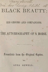 This rare copy of the first edition of Black Beauty by Anna Sewell belonged to the author's mother and bears a handwritten dedication reading "Mary Sewell, from her loving child A.S." This copy was sold at an auction at Christie's in London in June 2006 for £33,000.[1] Christie's Images via BBC UK.